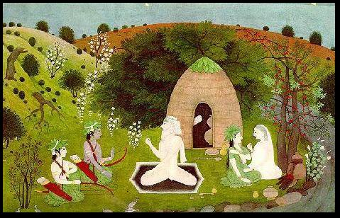 "Rama, Sita and Lakshmana at the Hermitage of Sage Atri. Pahari School, Chamba kalam, Kangra idiom"